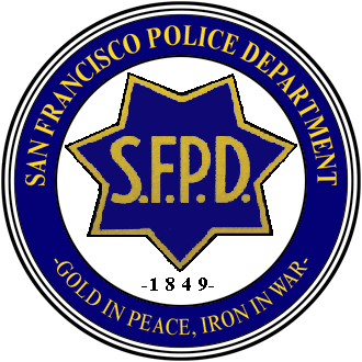 Seal of the San Francisco Police Department.